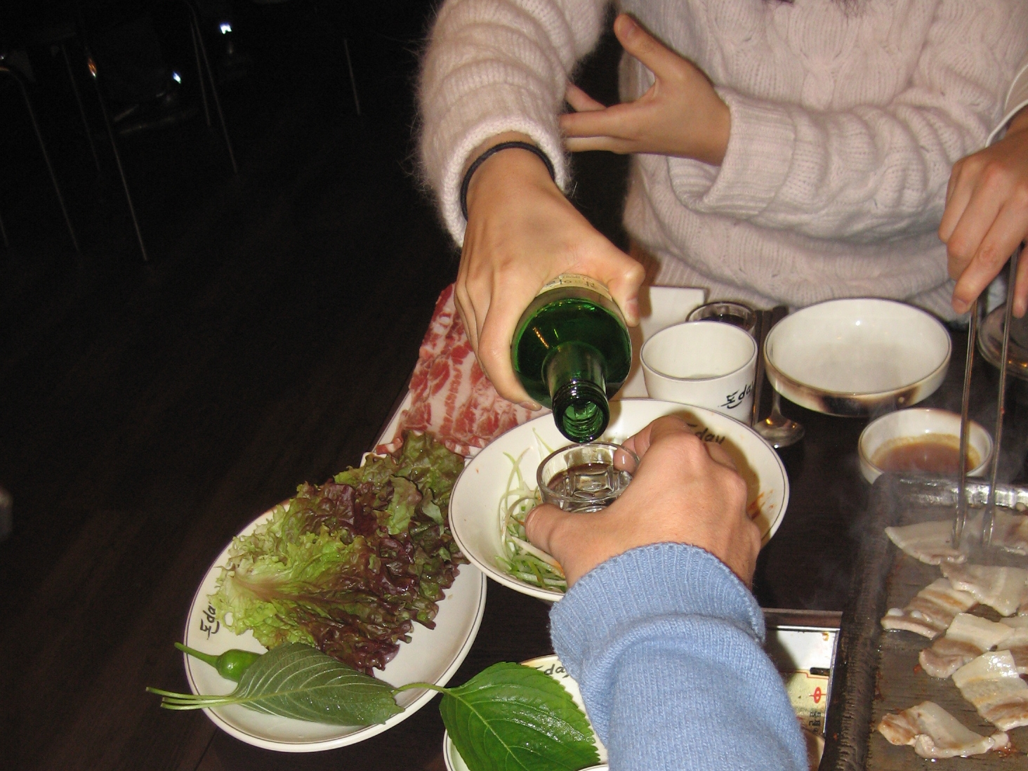 Korea-Pouring soju